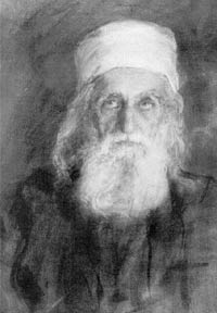 The portrait painted by Juliet Thomspson in three sittings in June 1912 New York City, New York